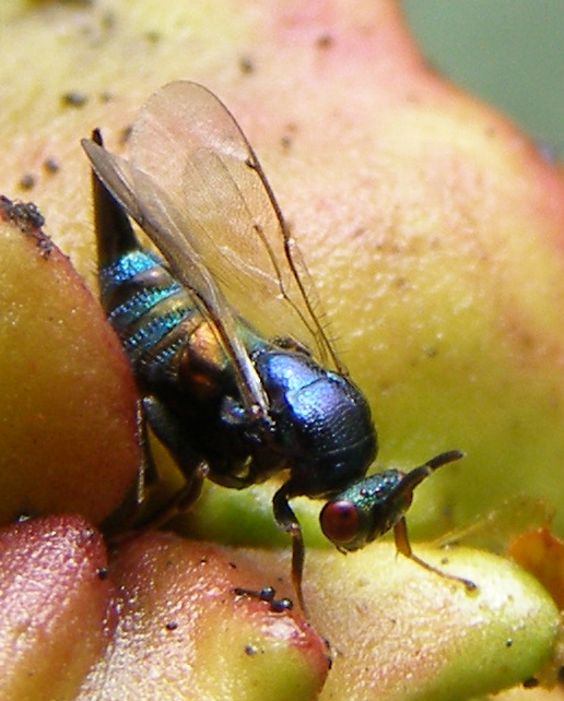 A female wasp of genus Ormyrus on a knopper gall.